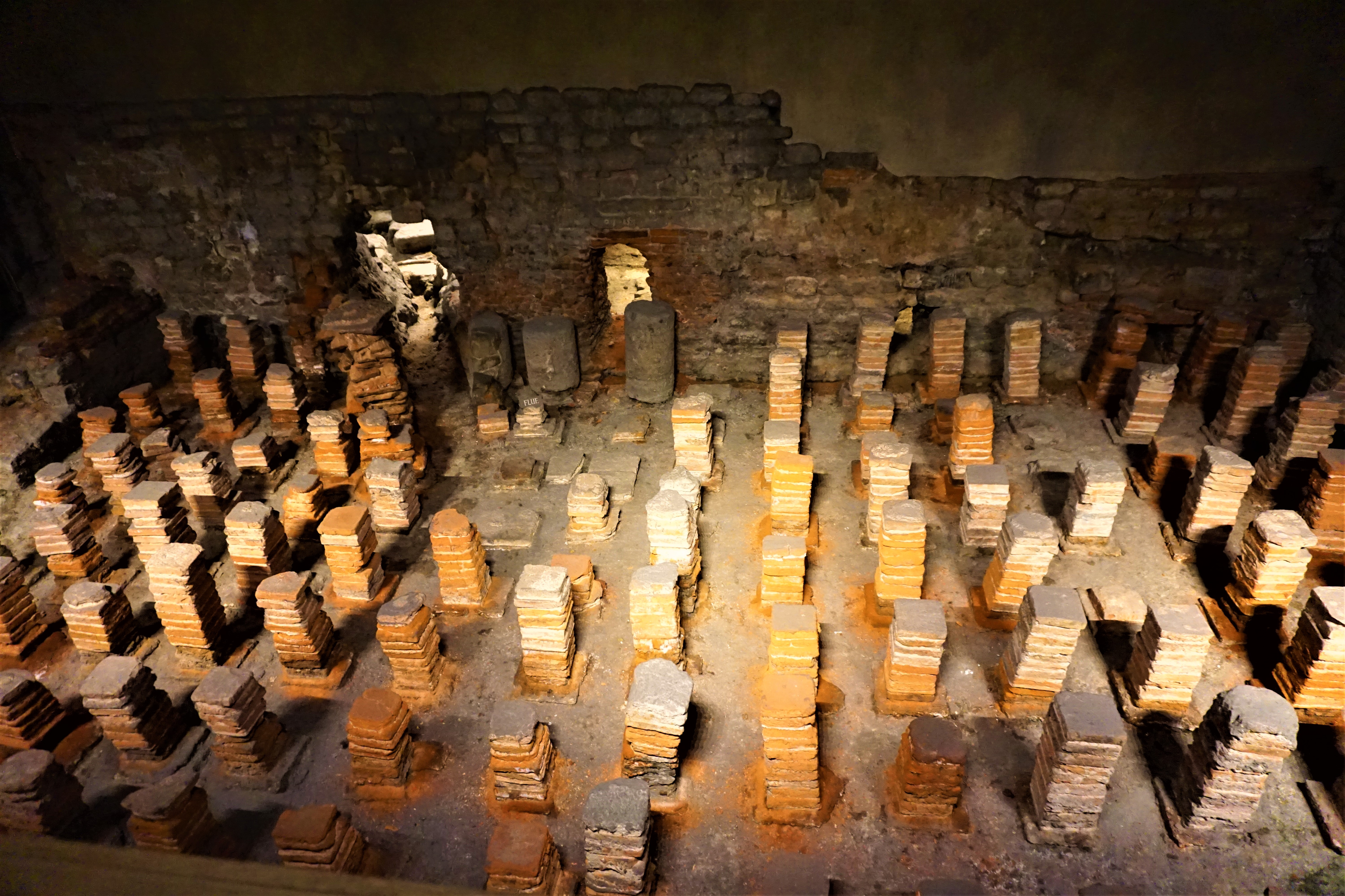 Hypocaust of the Heated Room - - Roman Baths (Bath)